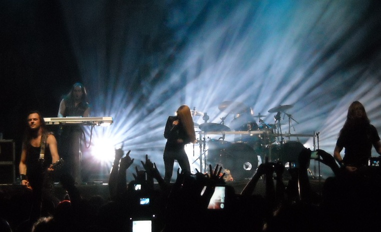 Dutch symphonic metal band Epica performing live in 2012, during their Requiem for the Indifferent World Tour.